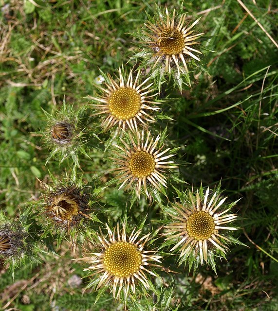 Carline Thistle, Lee Moor. Carlina vulgaris growing on the verge beside the road shown in 1456796.